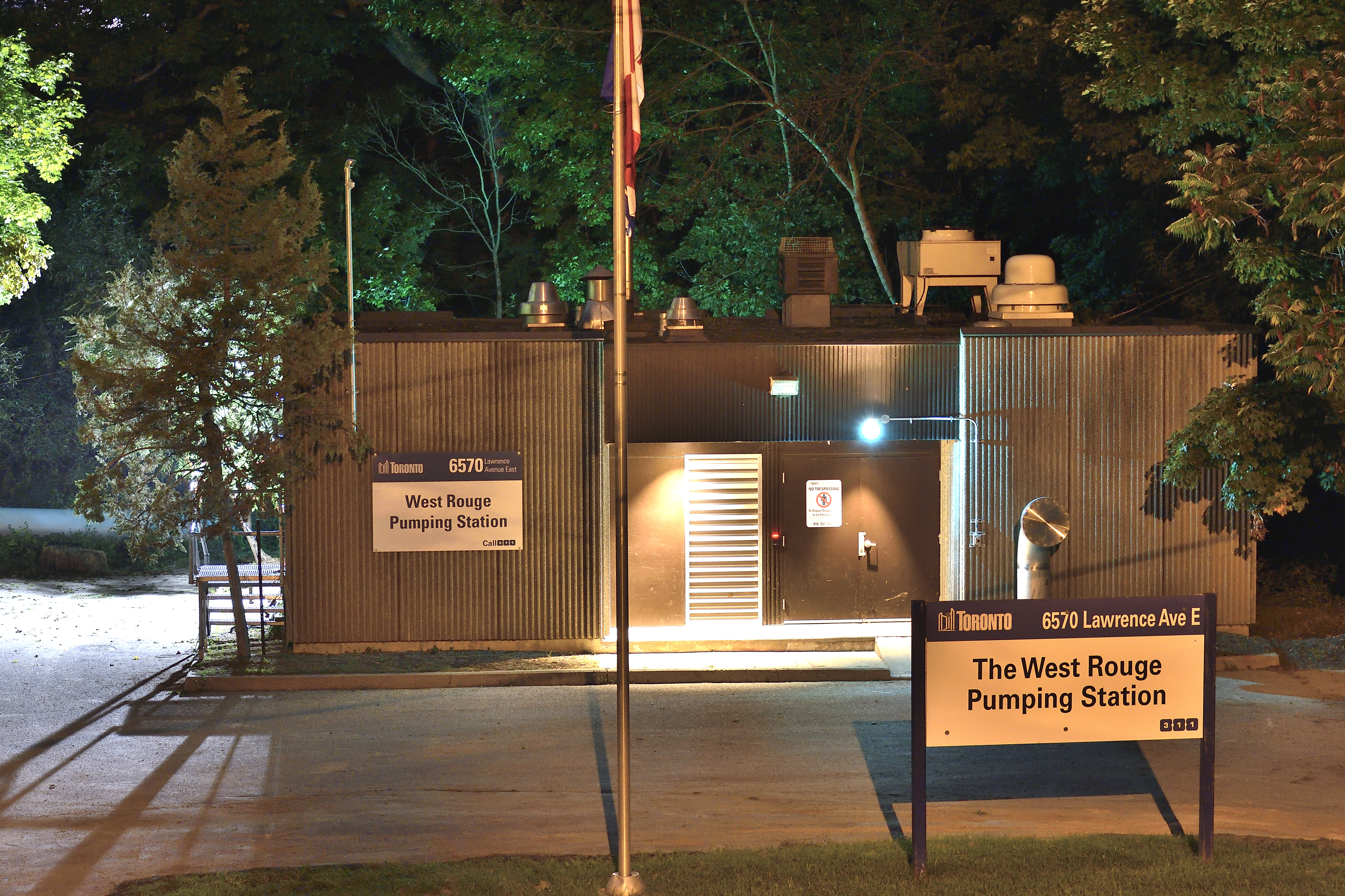 Shown in this photograph is the West Rouge sewage pumping station operated by the City of Toronto's Toronto Water Division.